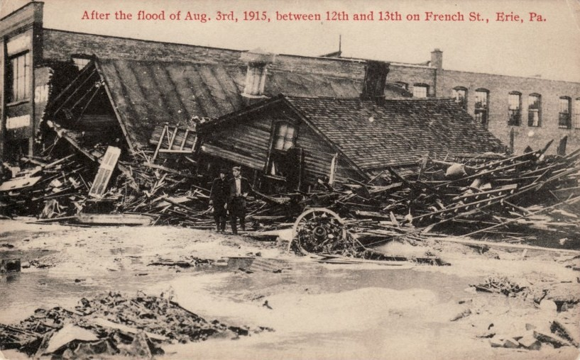 Postcard picture of French Street between 12th and 13th in Erie, Pennsylvania, after the flood of August 3, 1915.